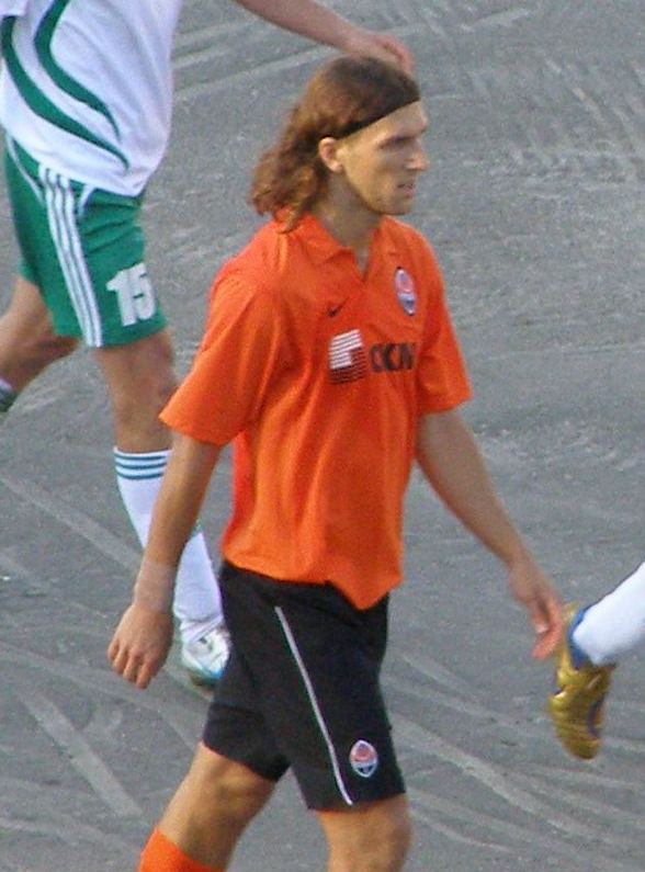 Dmytro Chygrynsky - footballer